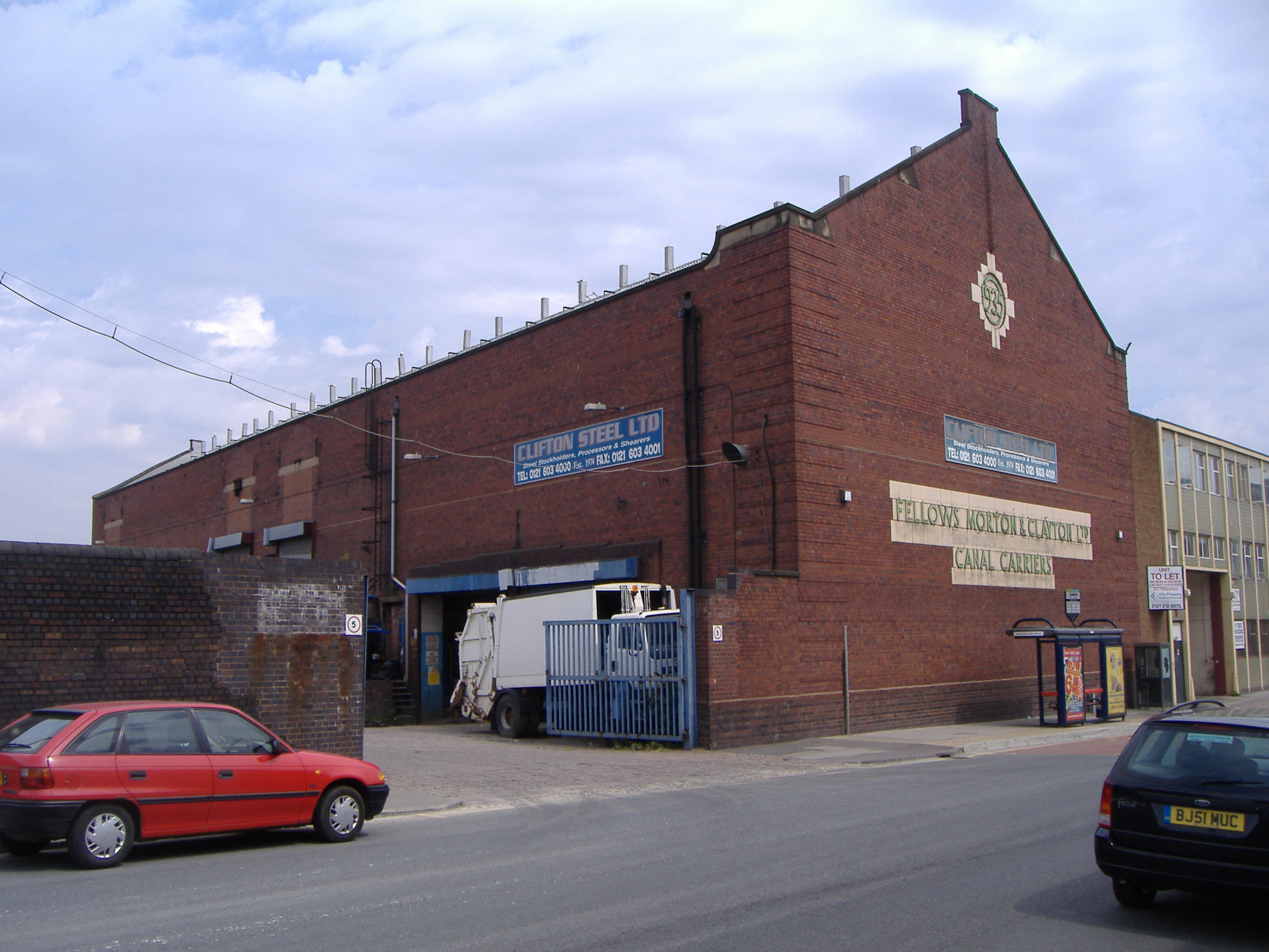 This is the former Fellows Morton and Clayton building in Digbeth, Birmingham. It is a Grade C locally listed building within the Warwick Bar conservation area. The adjacent Warwick Bar is the meeting of the Digbeth Branch Canal (Birmingham Canal Navigations) and the Grand Union Canal.